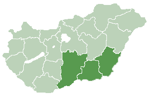 Dél-Alföld region of Hungary.